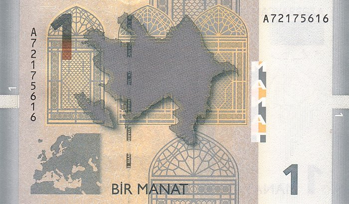 reverse of 1 AZN